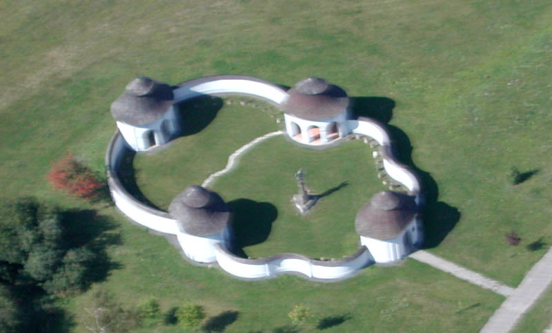 Cemetery in Žďár nad Sázavou, est. 1709, Jan Blažej Santini